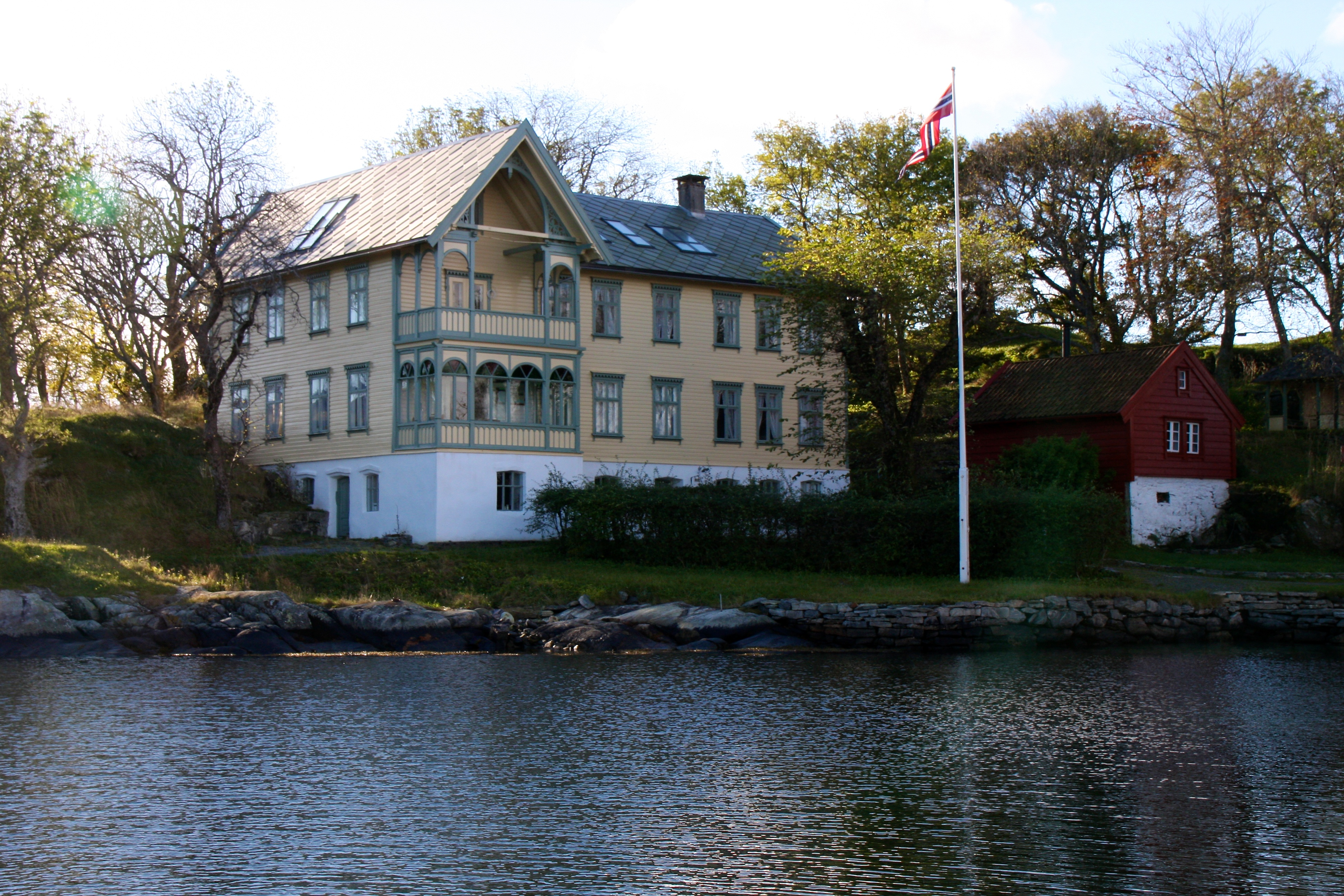 Gulen municipality, Norway.